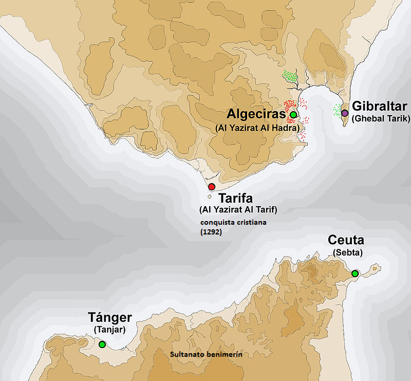 Evolución política del Estrecho desde 1274 a 1306 Rojo: Reino de Castilla Verde: Sultanato Benimerín Morado: Reino nazarí de Granada